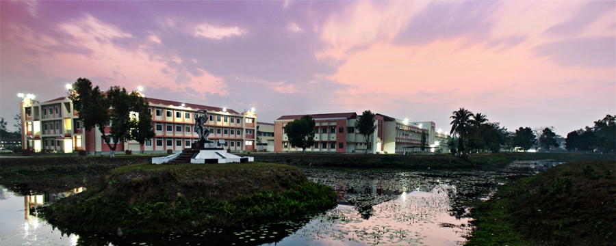 Jorhat Engineering College , Jorhat , Assam, India